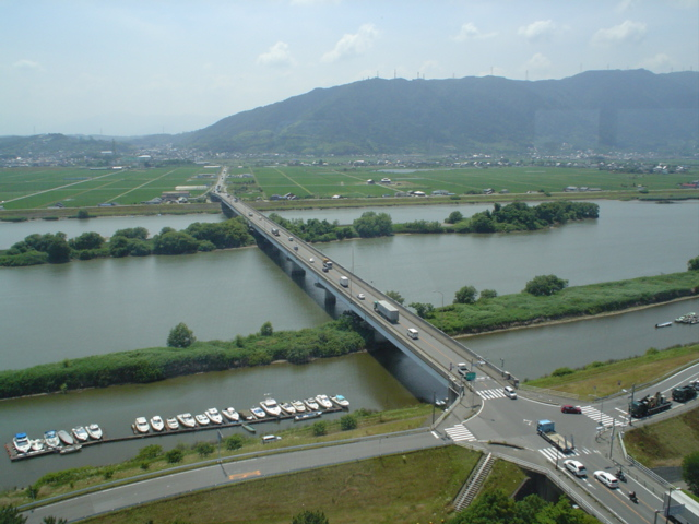 The Abaurajima Bridge over the Ibi River in Gifu and Mie Prefectures, Japan